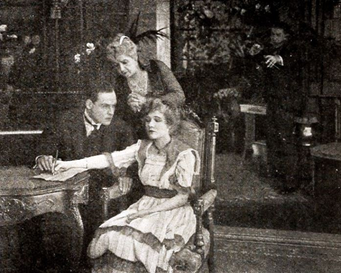 Still from the American mystery film serial The Mysteries of Myra (1916), on page 246 of the June 1916 Cine-Mundial (American Spanish language magazine). The film serial starred Jean Sothern as Myra.